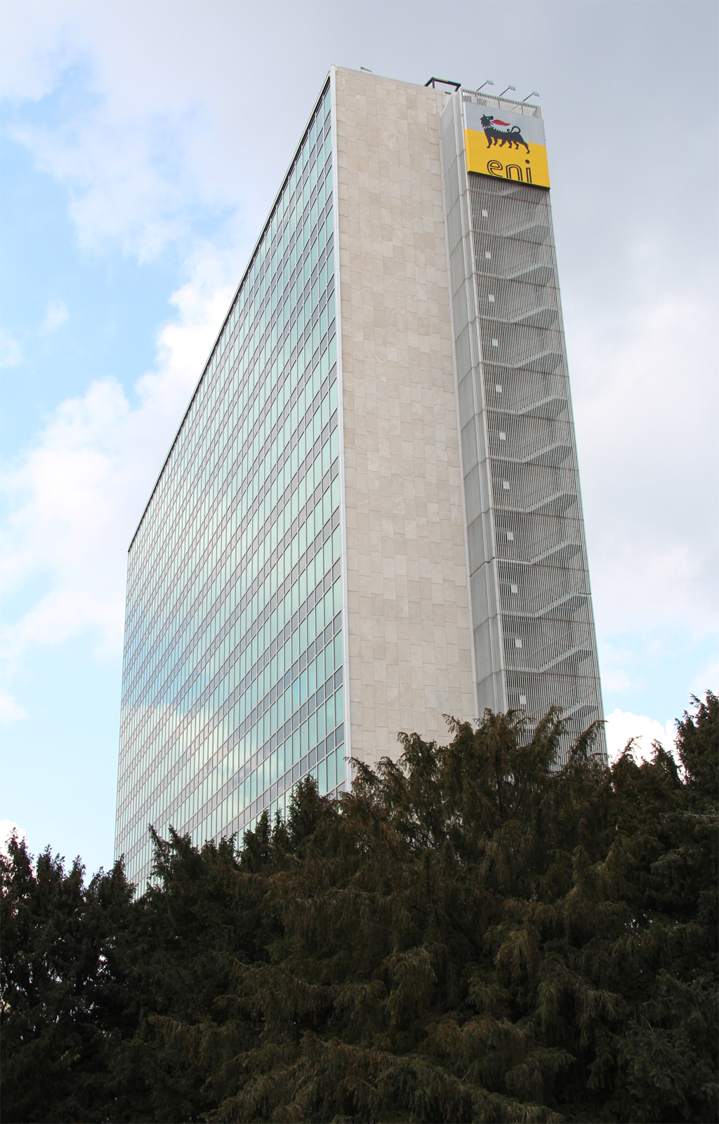 ENI Tower